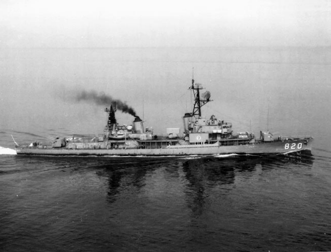 The U.S. Navy Gearing-class destroyer USS Rich (DD-820) underway on 21 March 1968.